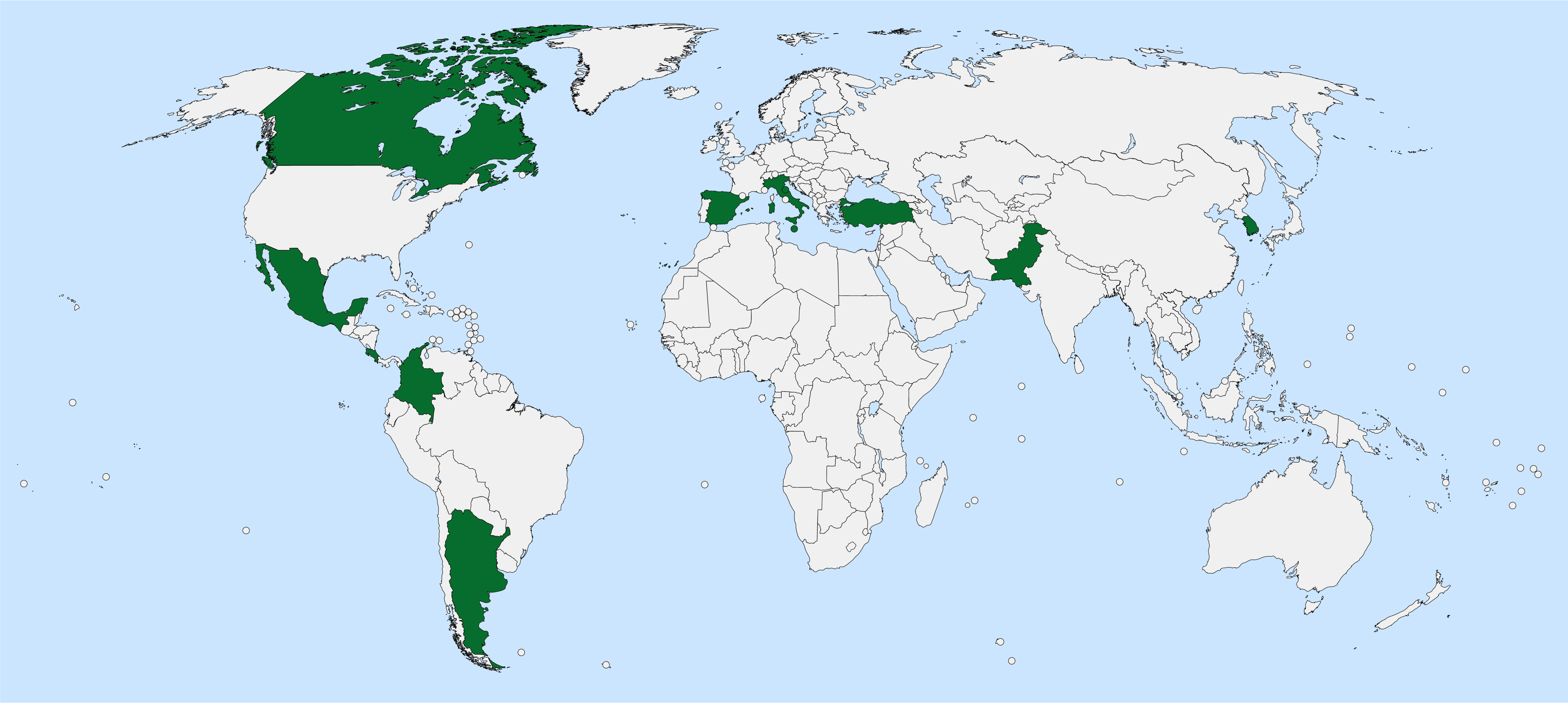 "Uniting for Consensus" group of nations concerned with United Nations Security Council reform (basically third-tier powers opposed to permanent SC membership for second-tier powers: Italy opposes Germany's claim, Pakistan opposes India's claim, South Korea opposes Japan's claim, Argentina opposes Brazil's claim. etc.).